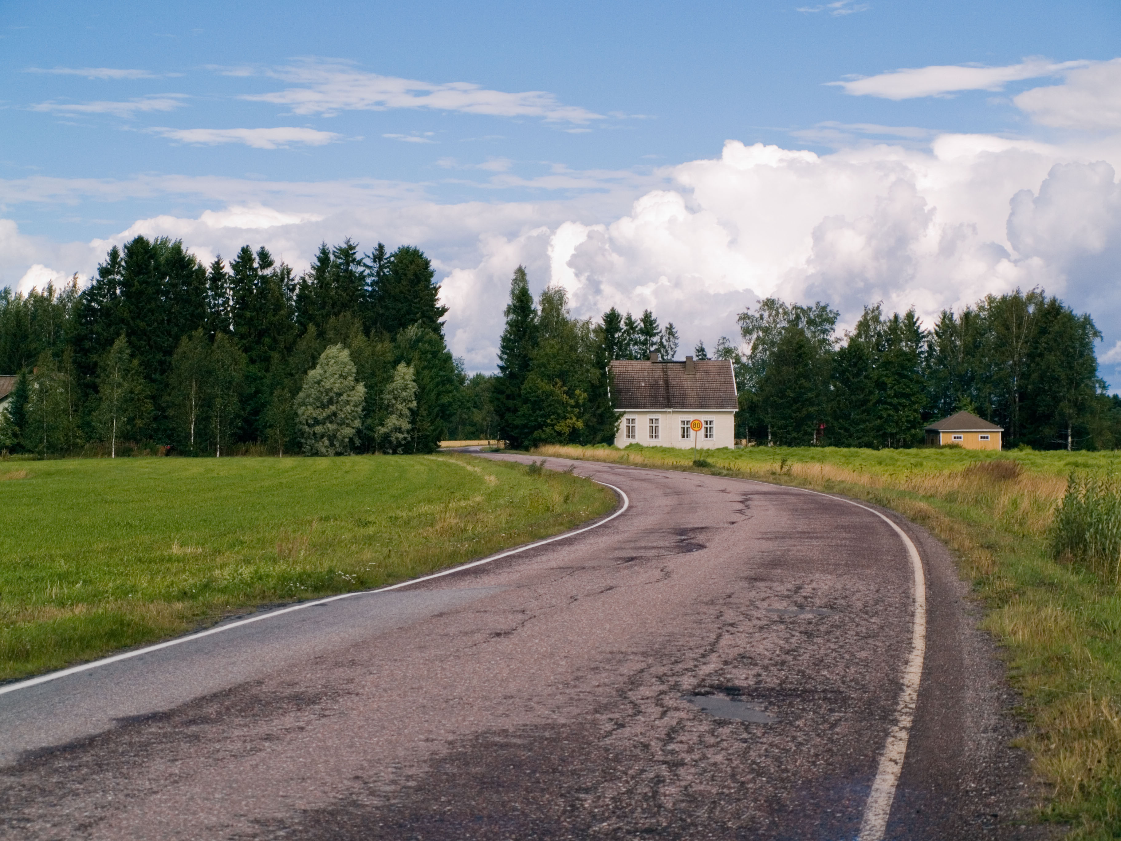 Connecting road 2102 from Mellilä, Loimaa, to Niinijoki, Loimaa.